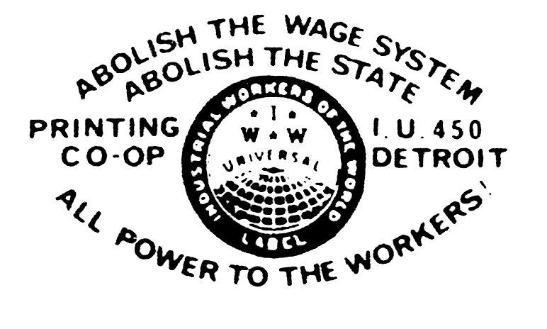 Union printer's label designed by Fredy Perlman in the 1970s. Label indicates labor performed in the printing of Perlman's Plunder by Black & Red, a printing workers' cooperative in Detroit, members of Industrial Union 450 of the Industrial Workers of the World. Surrounding text of the label reads, "Abolish the wage system; abolish the state; all power to the workers!"